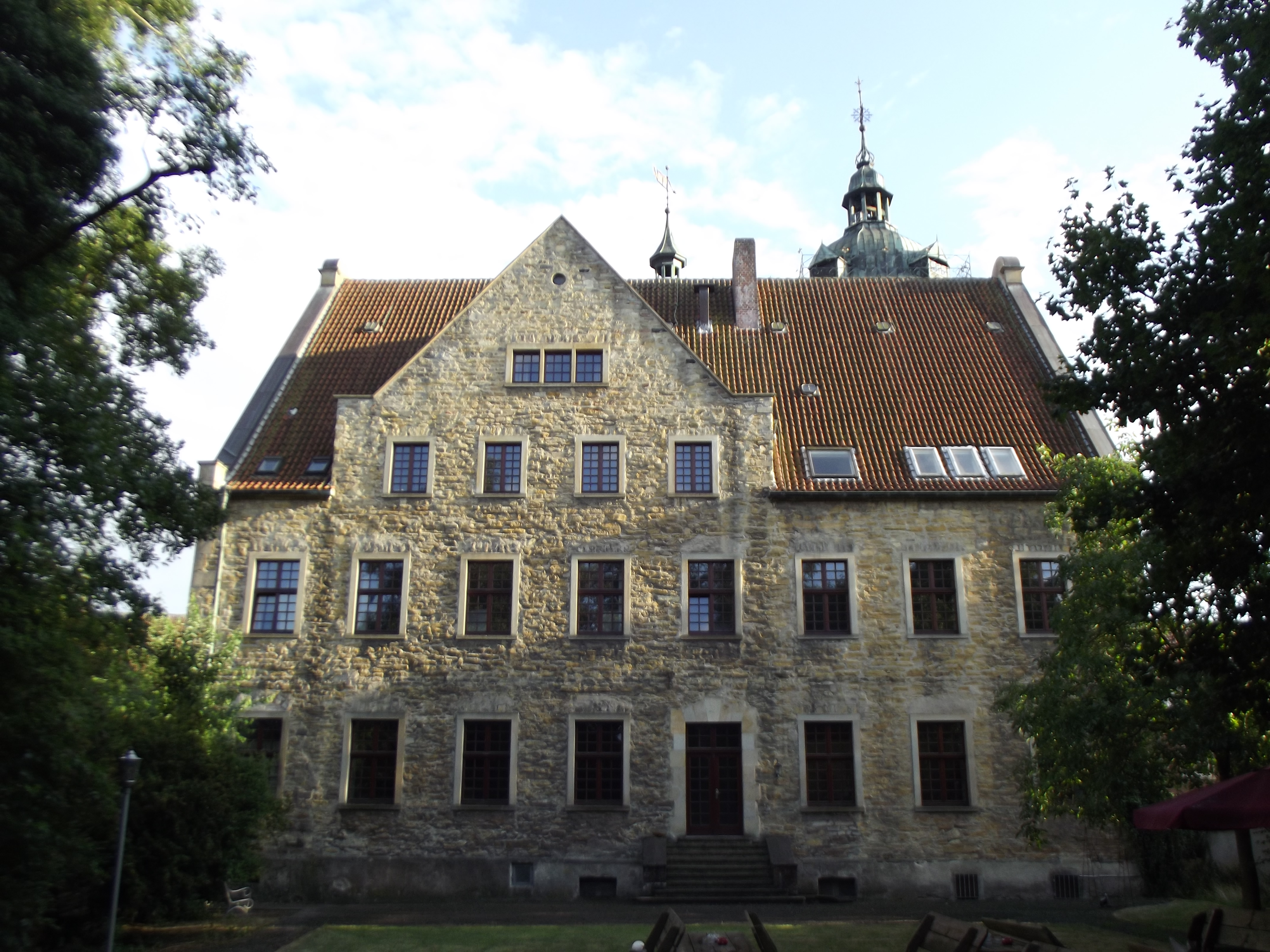 This shows the Hohe Schule in a way which is only accessible at certain times because you only get there if the beer garden of a certain historical pub is open. This image shows a heritage building in Germany, located in the North Rhine-Westphalian city Steinfurt (no. 5).